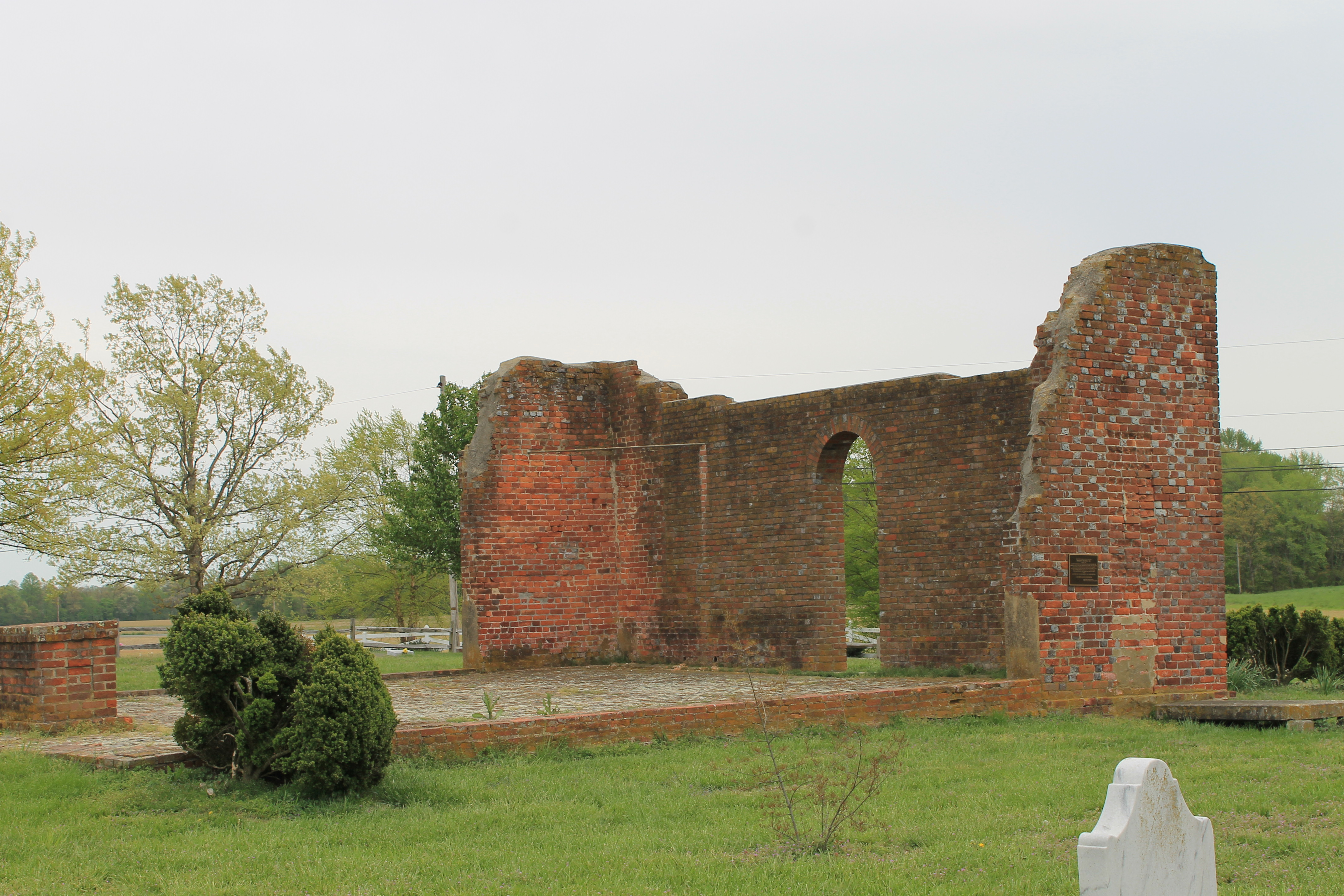 The back of Old White Marsh Church in Talbot County, Maryland.